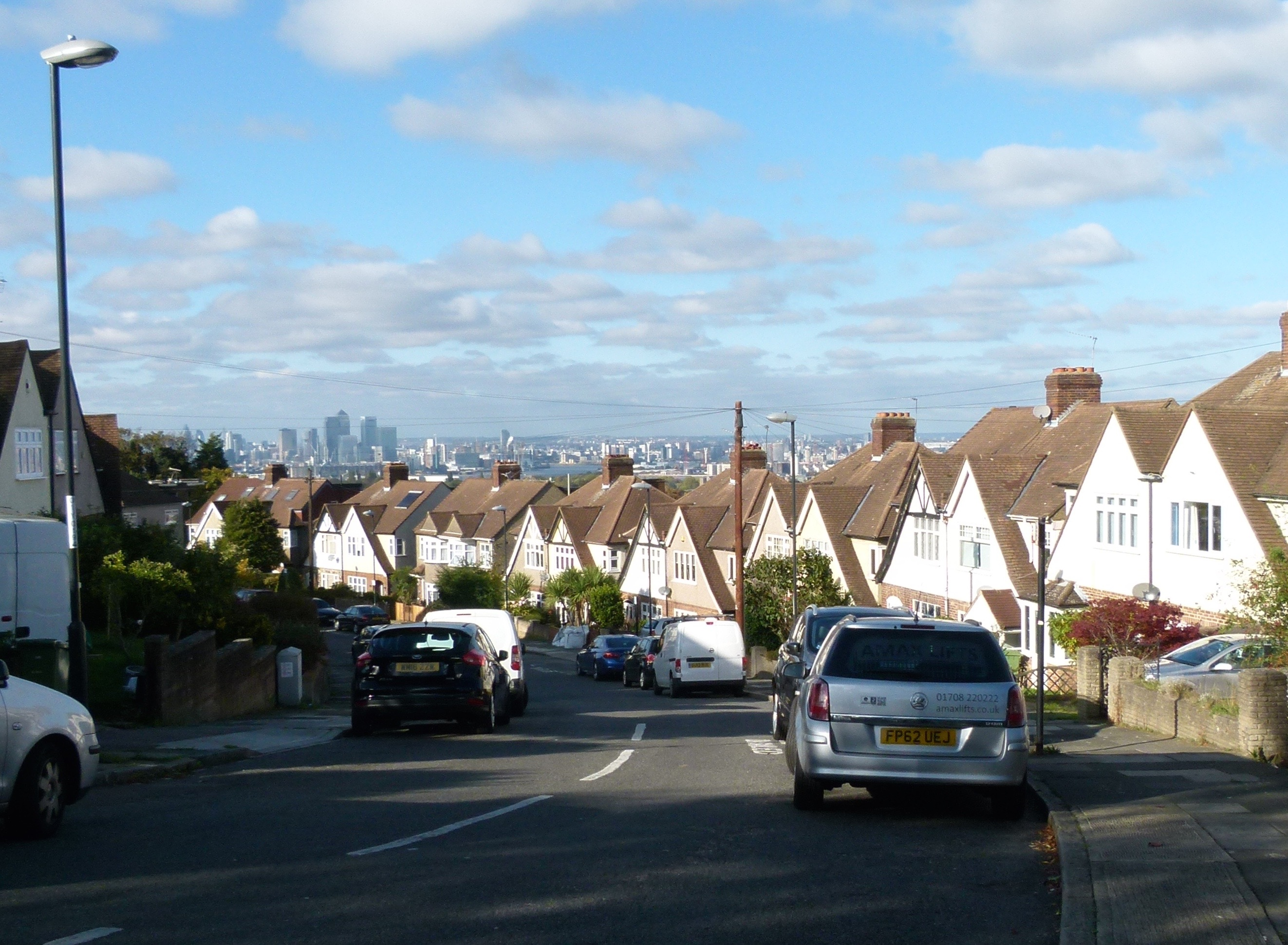 View of Brinklow Crescent in Plumstead-Shooters Hill, South East London, UK.